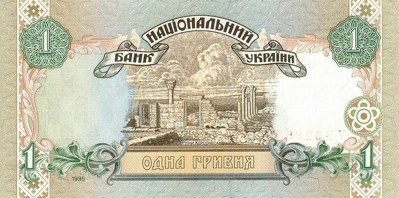 1 Hryvnia banknote (Ukraine), 1995, b